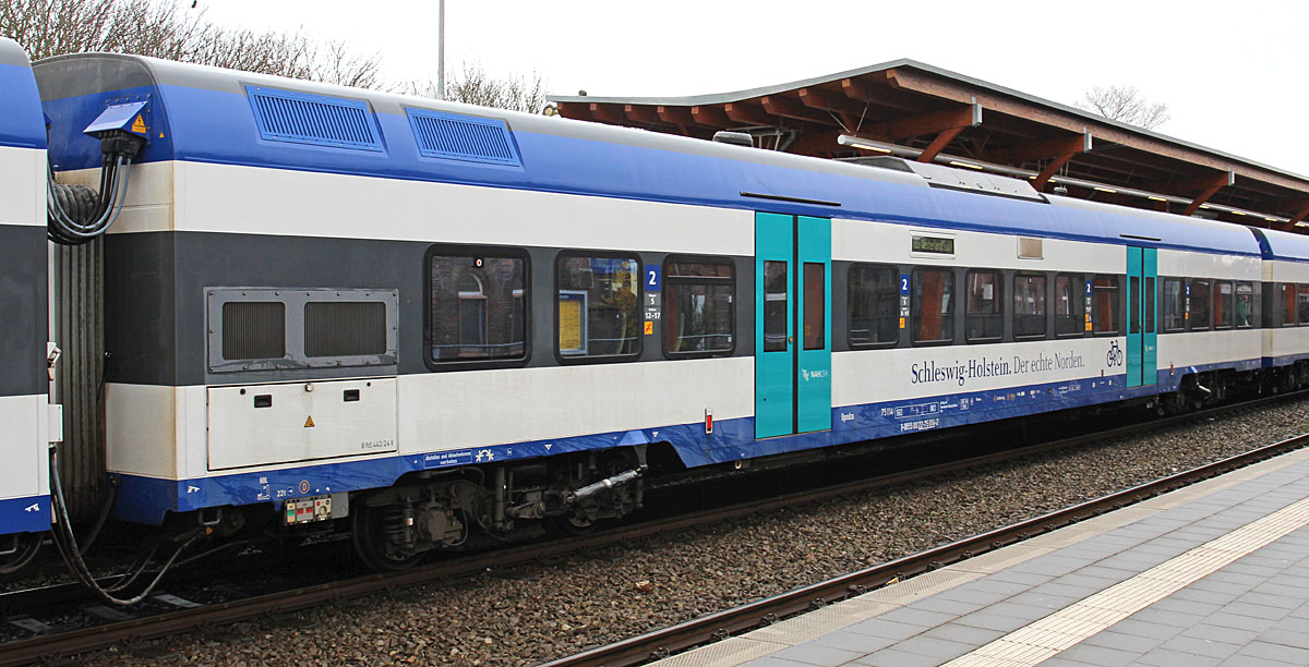 Bombardier Married Pair Coach D-DB 55 80 22-75 014-2 Bpmdza, now used by DB Regio AG